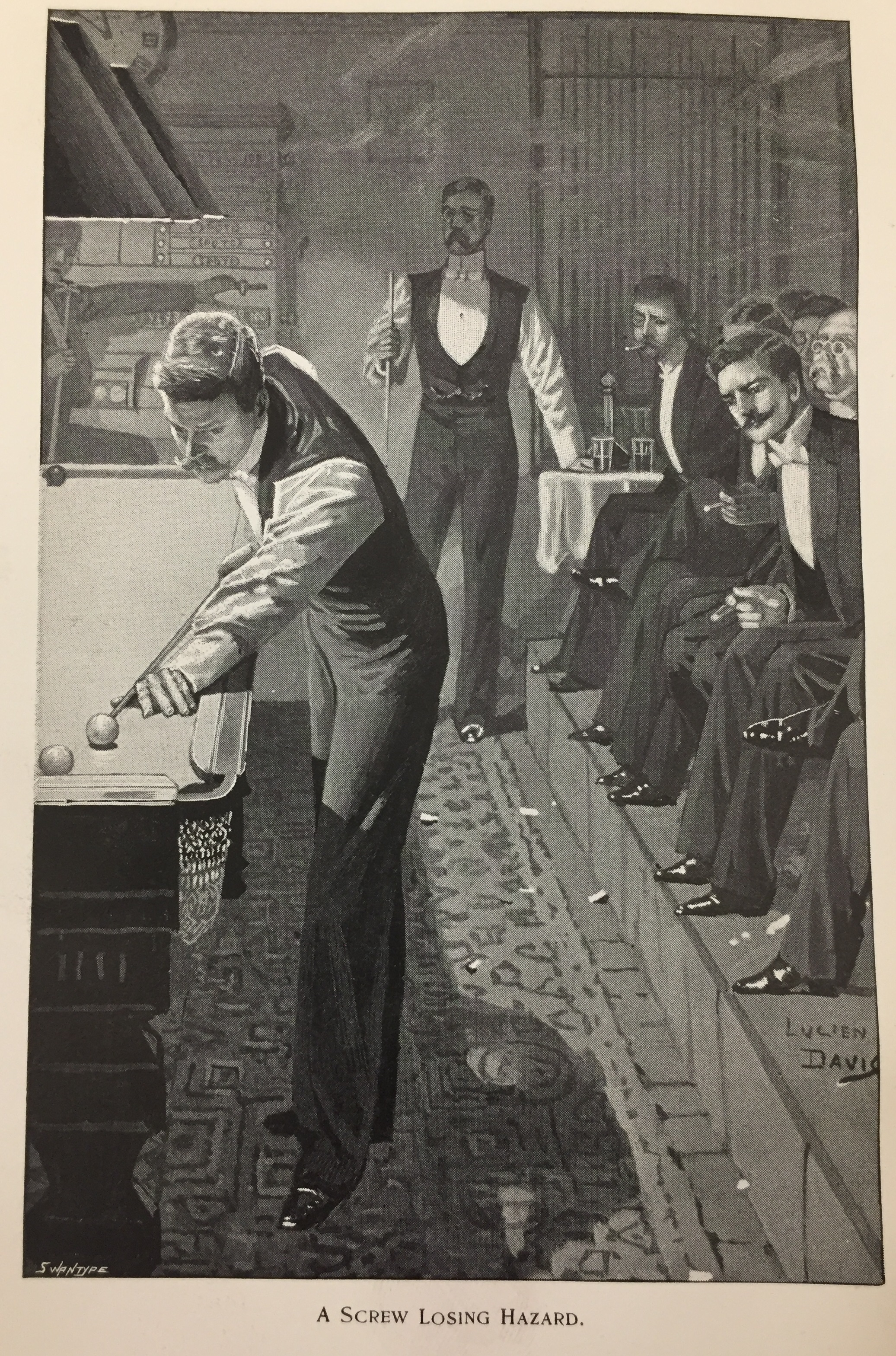 Player of English billiards making a screw losing hazard. Illustration by Lucien Davis (1860-1941) from the 1902 edition of Billiards by Major W. Broadfoot.